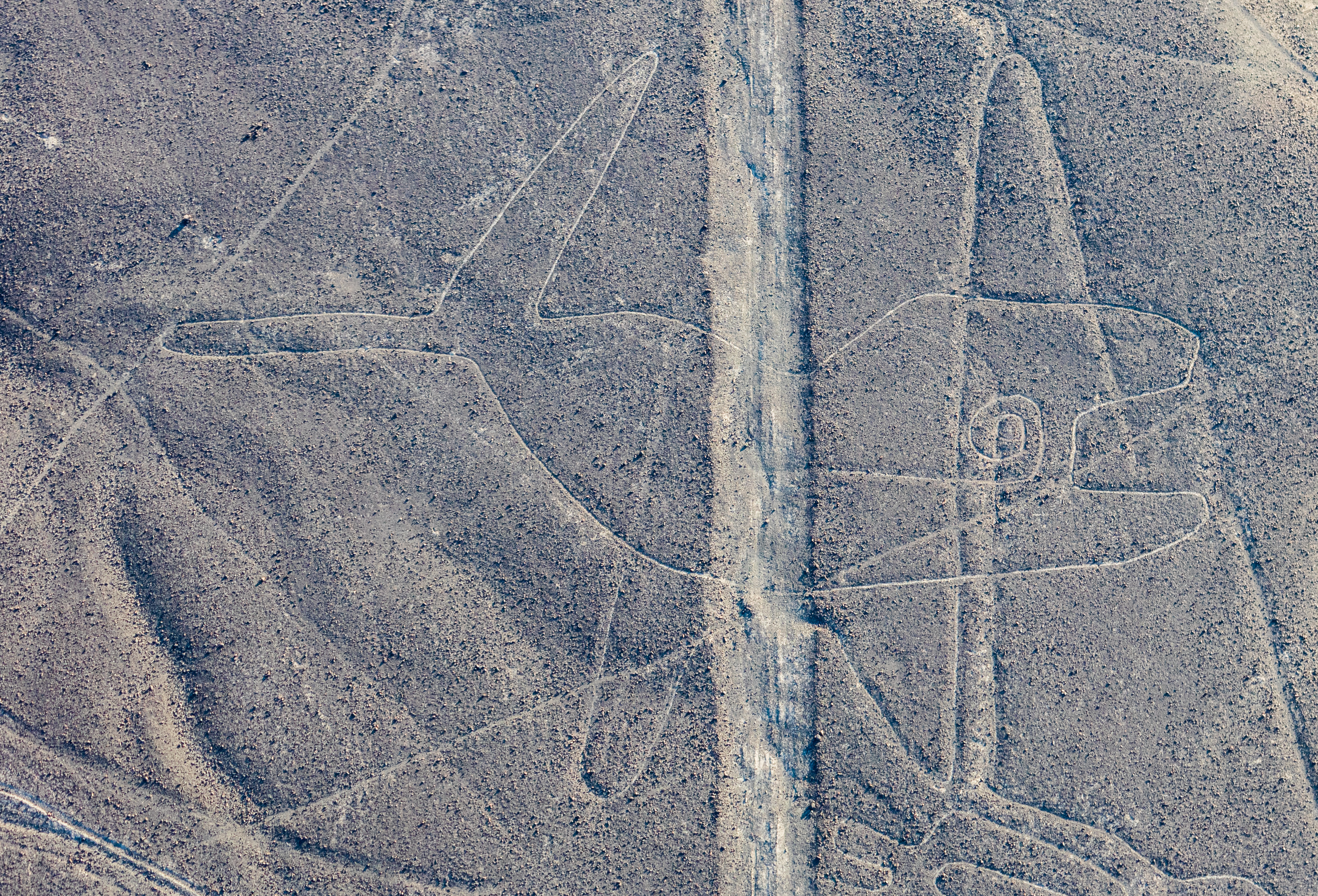 Aerial view of the "Whale", one of the geoglyphs of the Nazca Lines, which are located in the Nazca Desert in southern Peru. The geoglyphs of this UNESCO World Heritage Site (since 1994) are spread over a 80 km (50 mi) plateau between the towns of Nazca and Palpa and are, according to some studies, between 500 B.C. and 500 A.D. old. This place is a UNESCO World Heritage Site, listed as Nazca Lines.